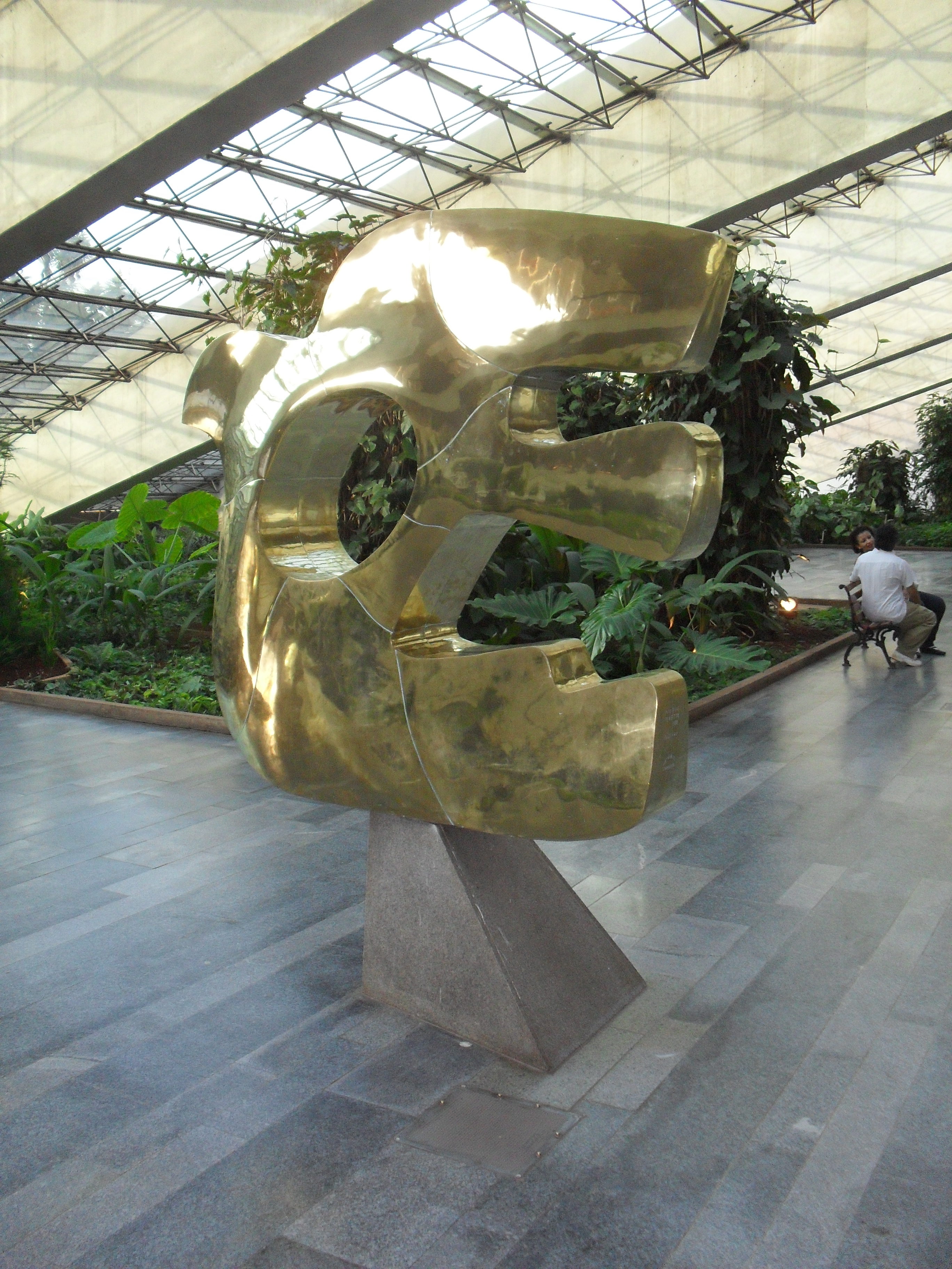 Sculpture signed by Marianne Peretti, polished bronze, 1.80 m by 0,60 m, weight: 804 kg; installed at the antechambler of Villa-Lobos room of the Cláudio Santoro National Theater, Brasília, Brazil